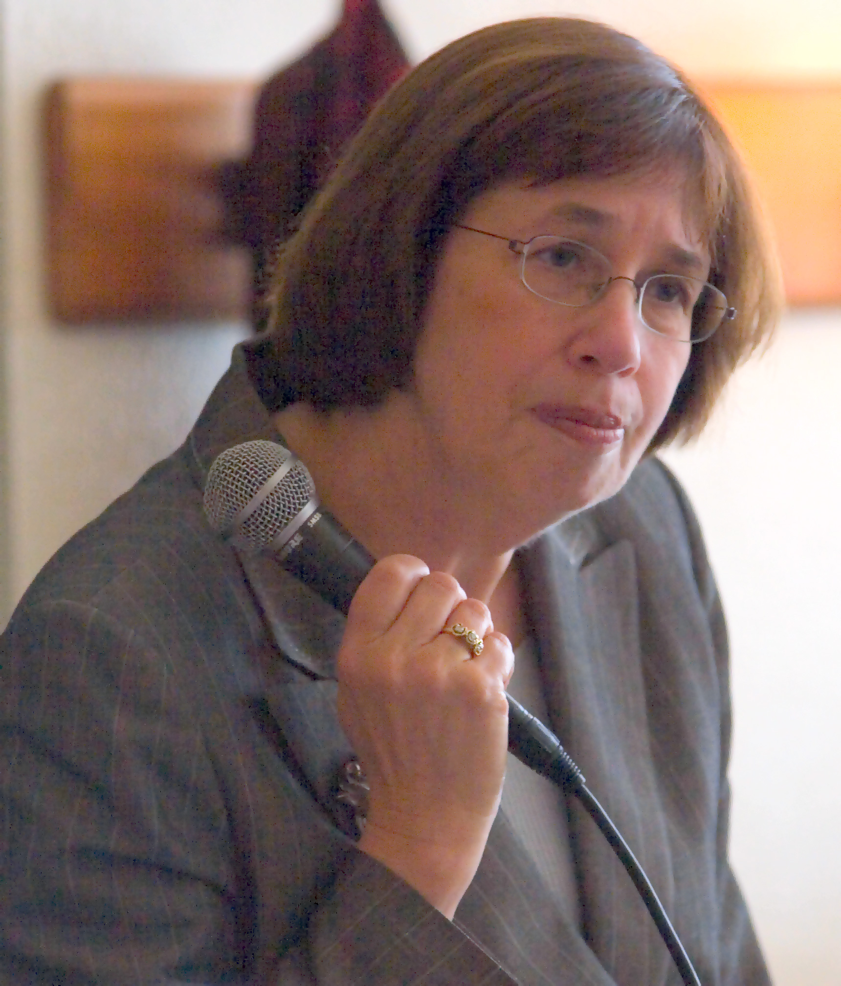 Linda Greenhouse, a Pulitzer Prize winning reporter for The New York Times speaking at the San Francisco City Arts and Lectures lunch at the Hayes Street Grill.